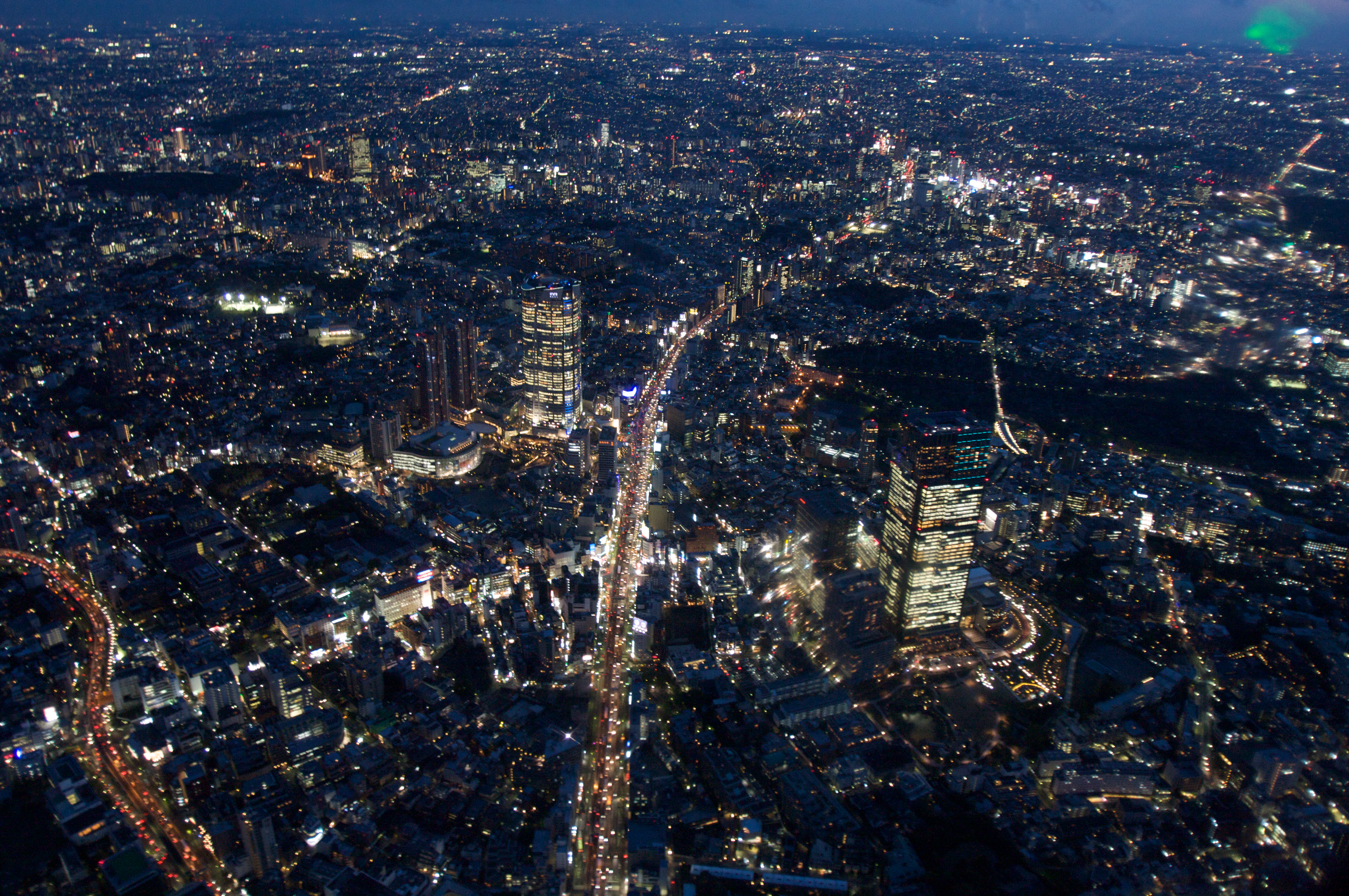 Roppongi: Midtown & Mori Tower. Tokyo, Japan.